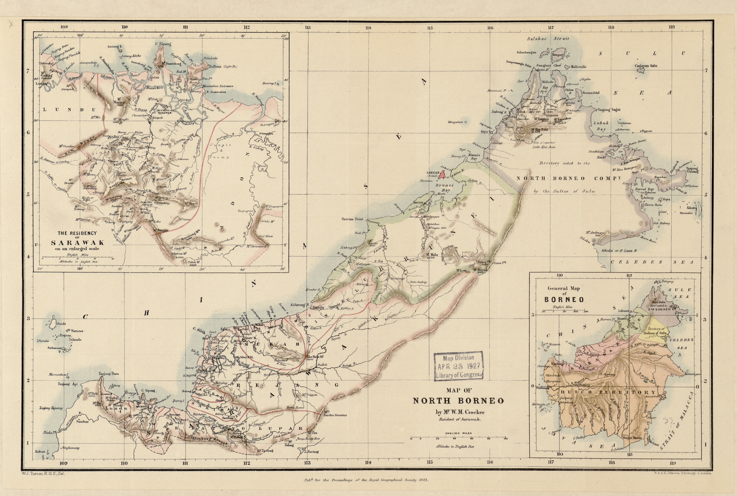 Map of Northern Borneo in 1881, showing Sarawak, Brunei, North Borneo Company, published in 1881 by W. and A.K. Johnston, Edinburgh